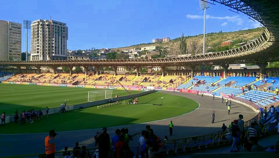 Armenia vs Portugal, 13 June 2015, V. Sargsyan Rep. Stad. Yerevan